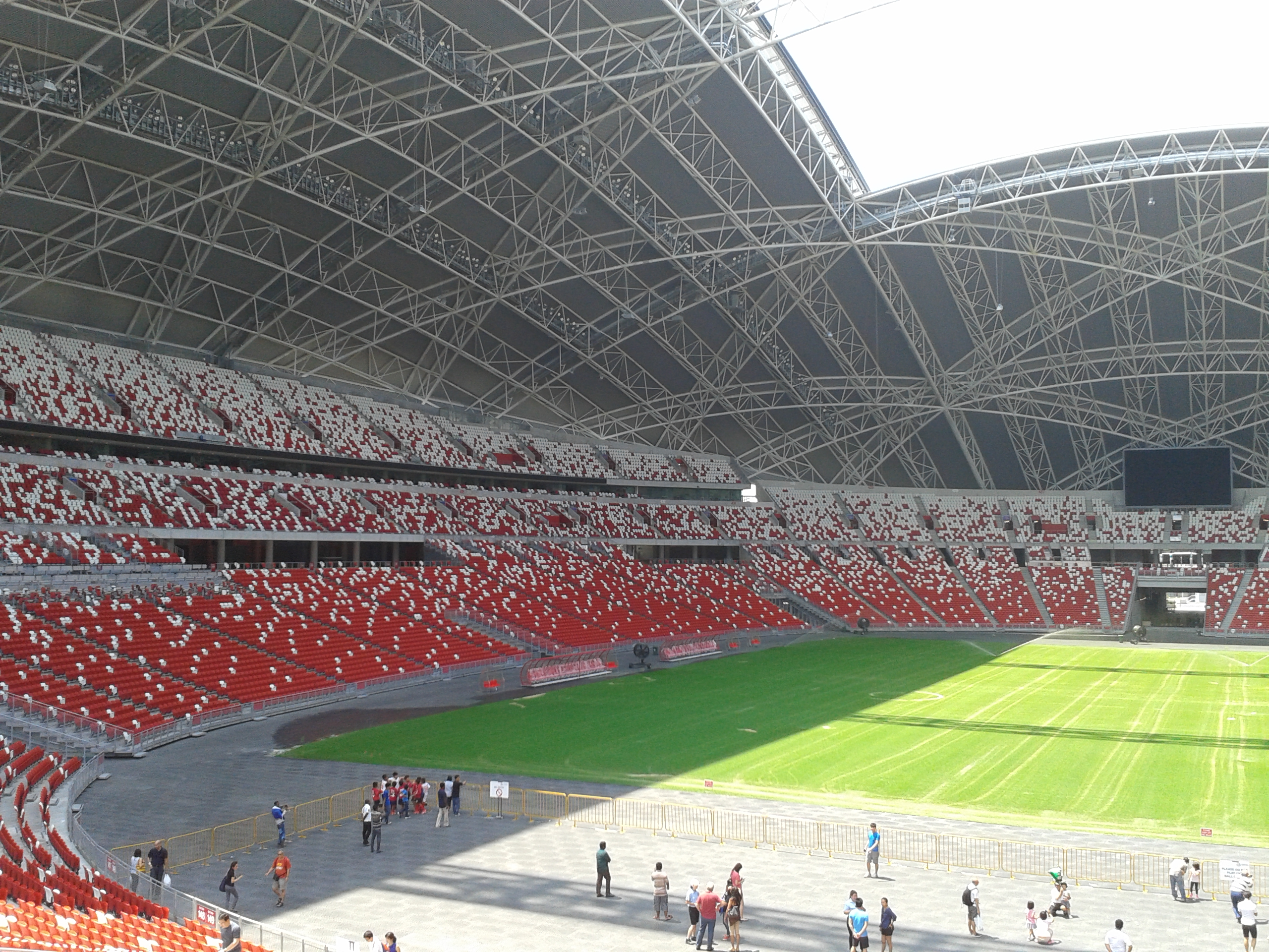 Seating at Singapore National Stadium